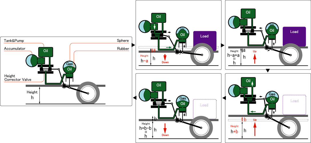 A conception diagram of hydropneumatic suspension. Structure of automatic height adjustment.